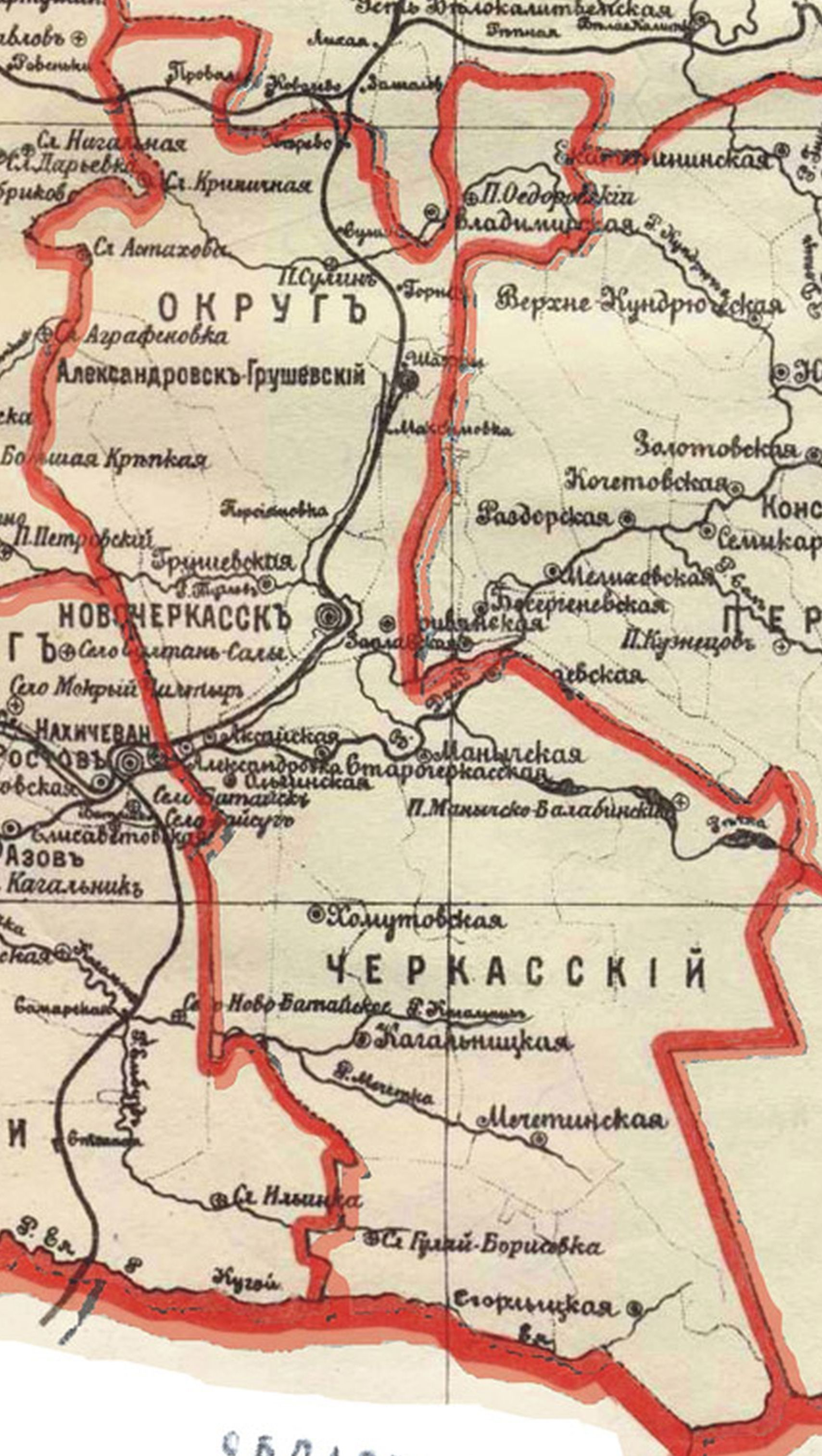 Cherkassy okrug of Oblast' Voiska Donskogo